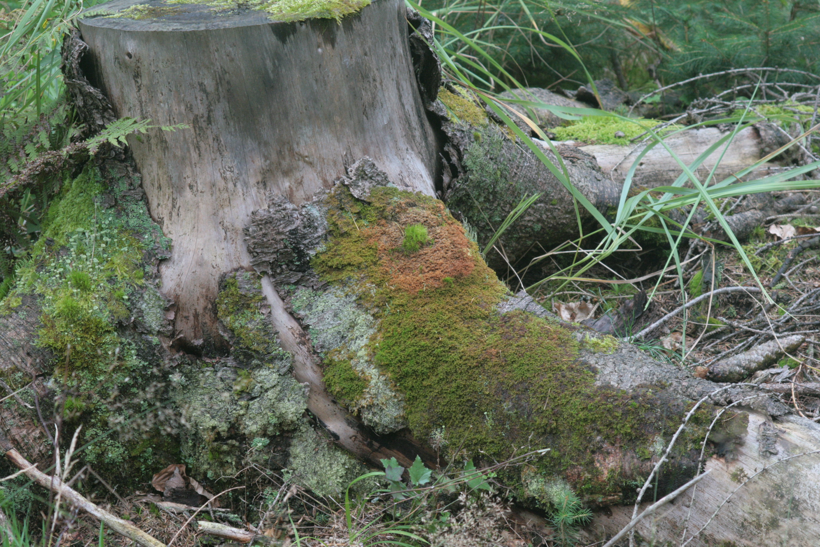 Ptilidium pulcherrimum